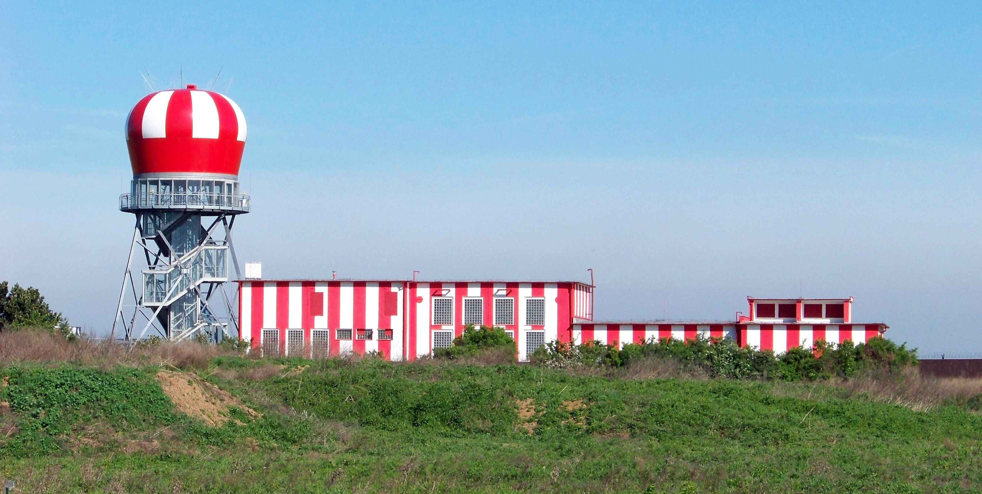 Prague-Ruzyně, the Czech Republic. Ruzyně Airport, a radar tower near Hostivice.